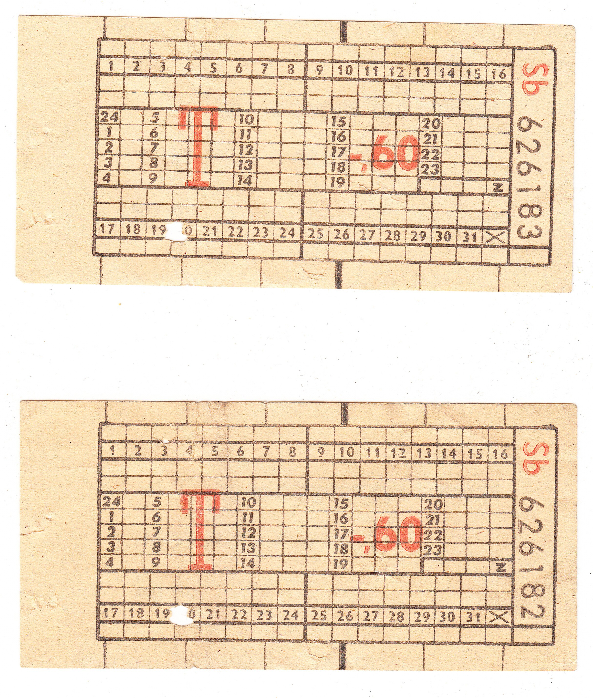 Public transport tickets. Trolleybus, Prague, cca 1965.